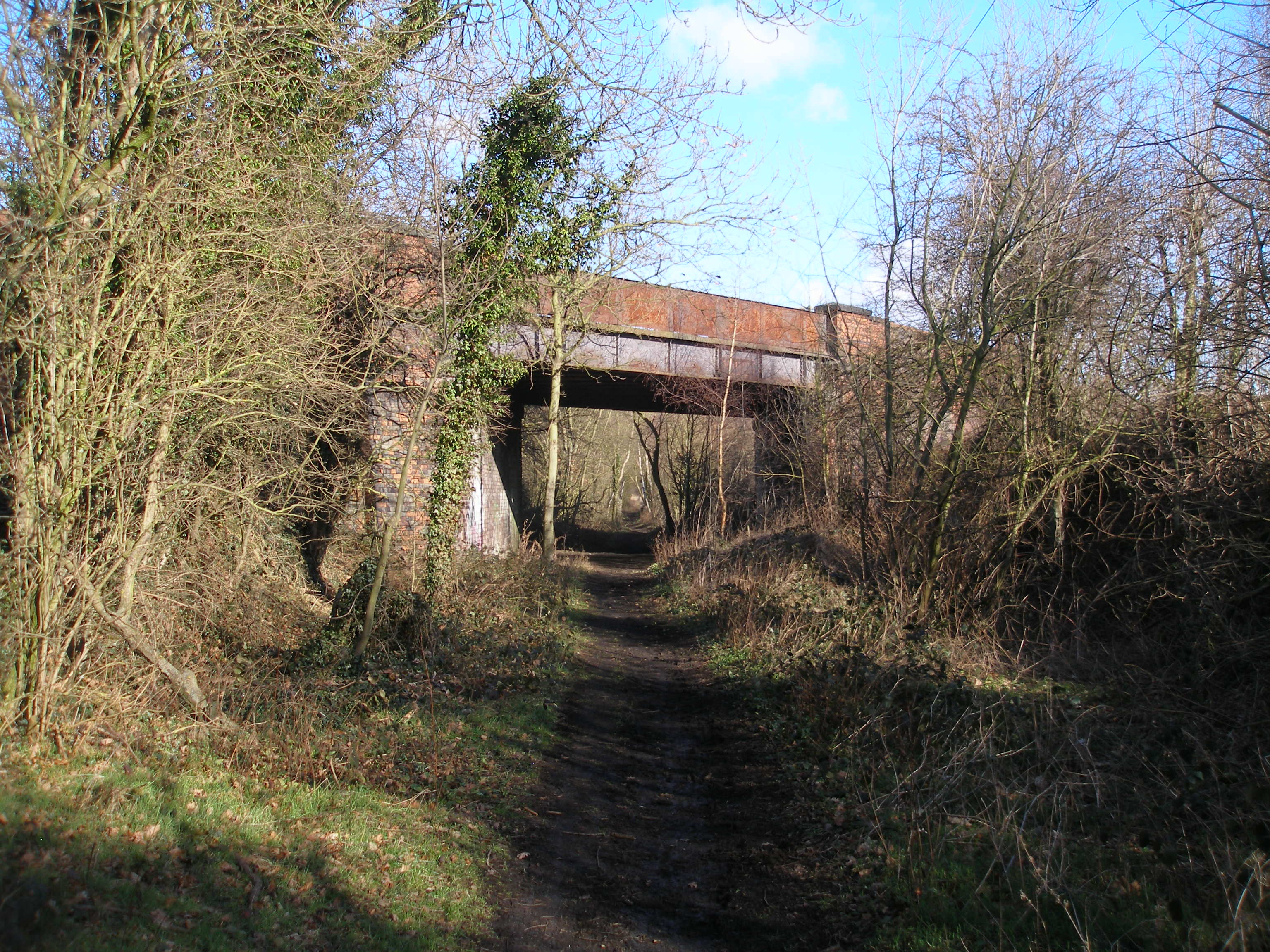 Disused railway passes under Back Lane